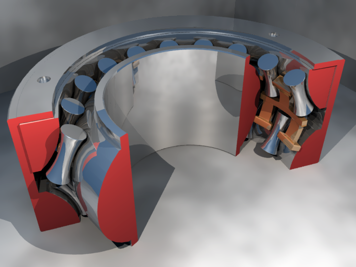 a bearing w. diabolo-shaped rolling elements, in cross-section